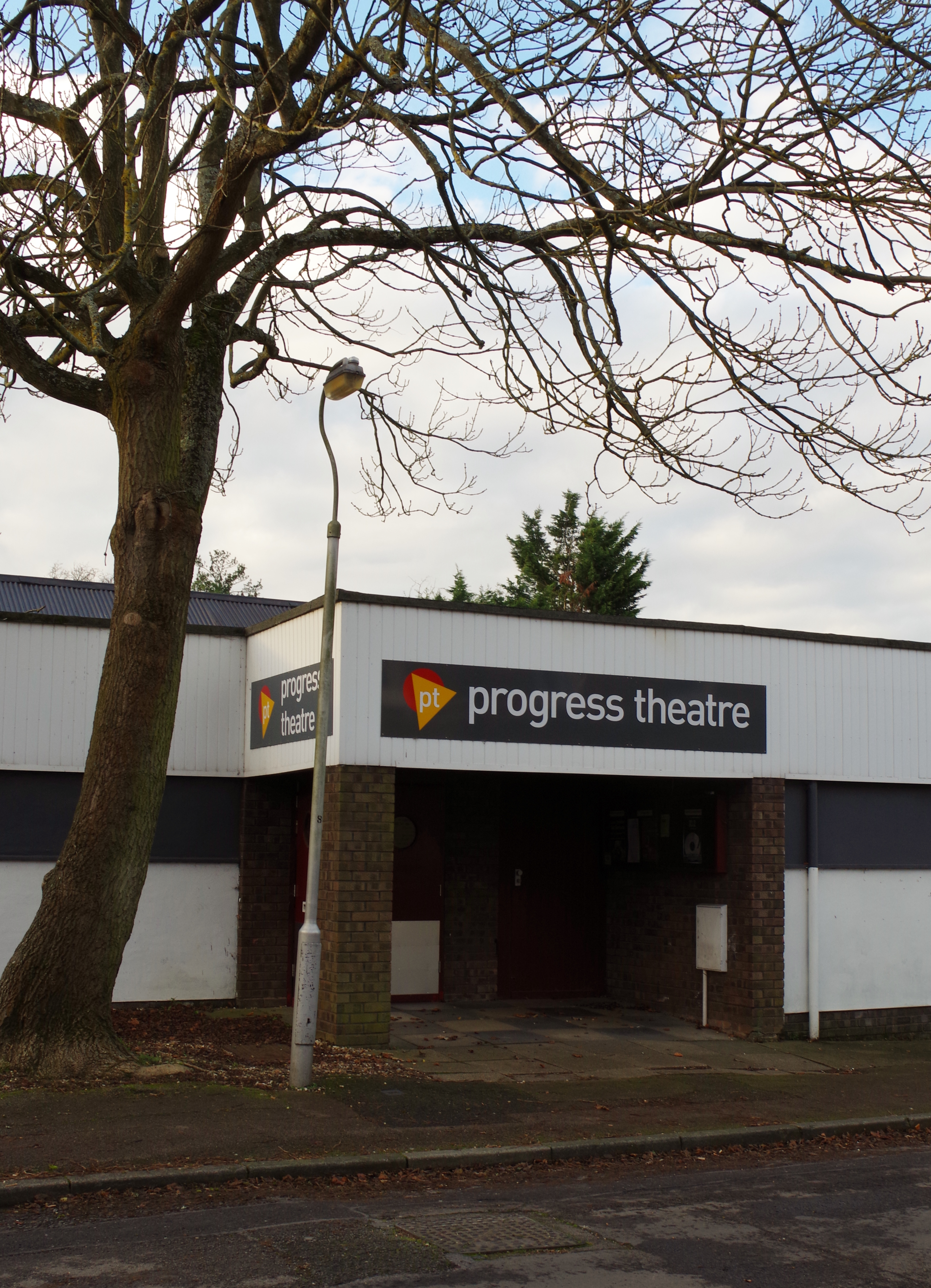 exterior of Progress Theatre, Reading, England